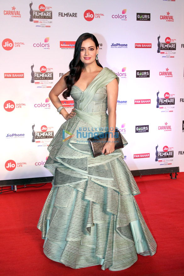 Dia Mirza attends the 63rd Jio Filmfare Awards 2018, Jan 21, 2018